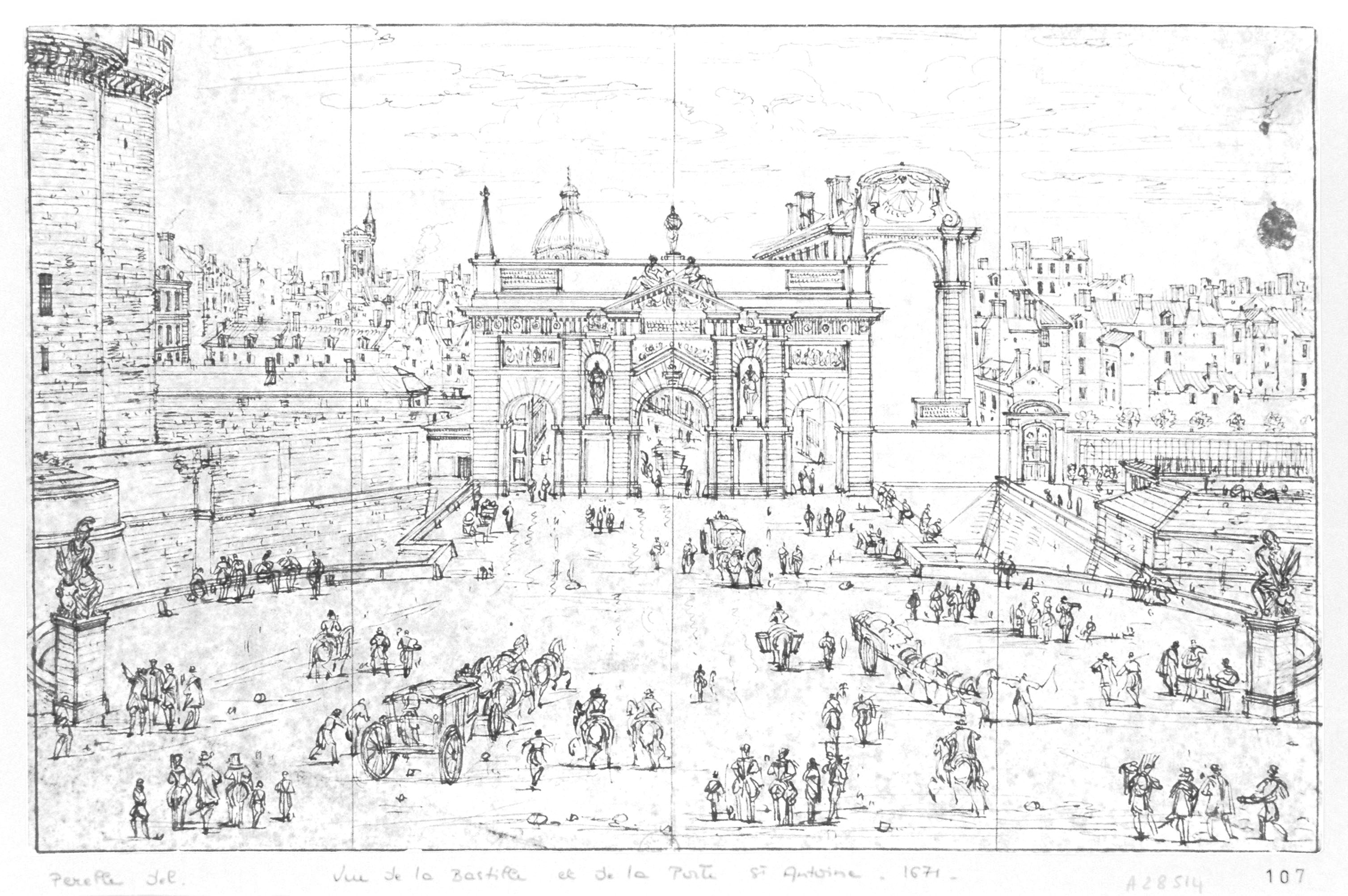 View of the Porte Saint-Antoine looking west